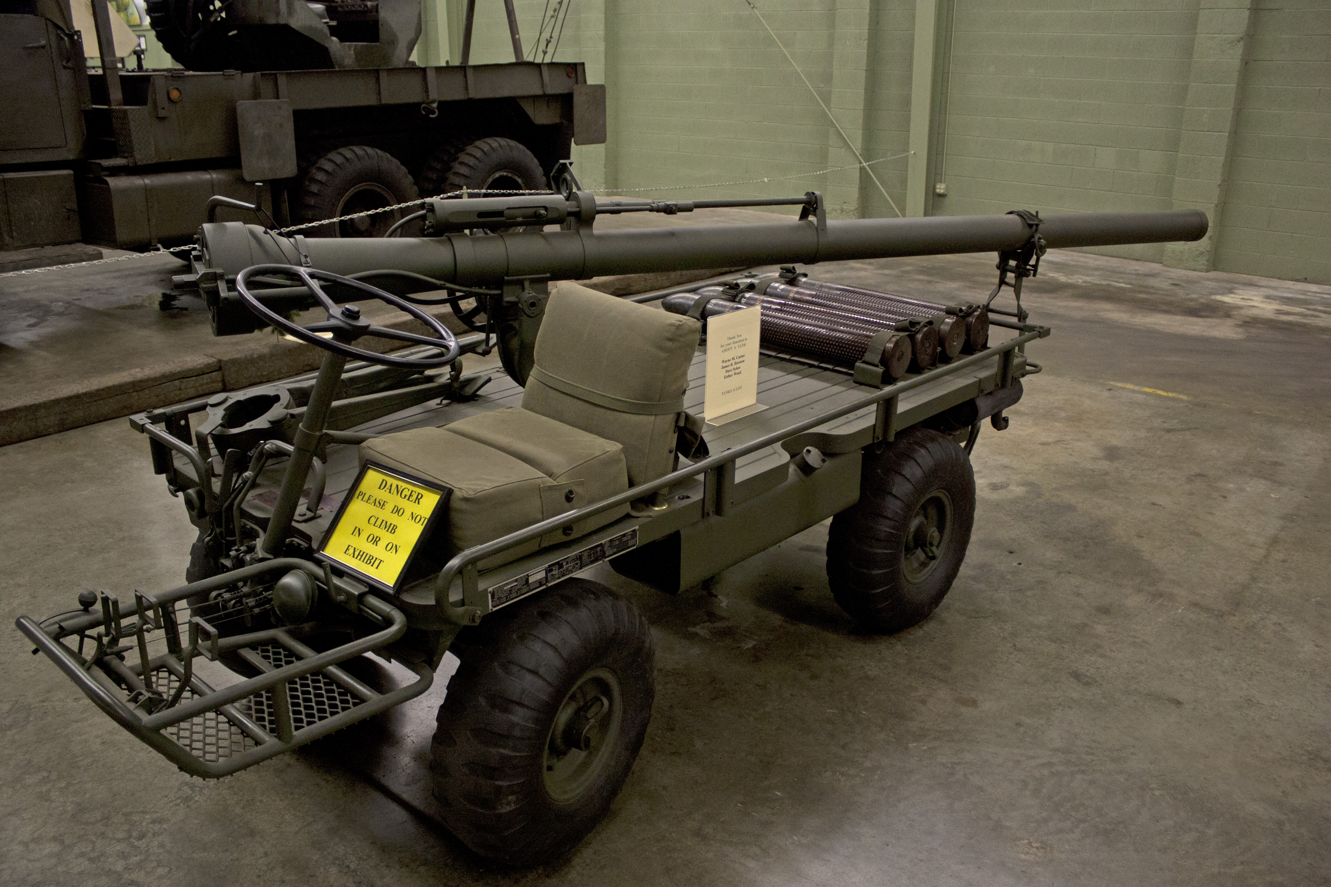 M274 Mechanical Mule with a M40 recoilless rifle at the American Armoured Foundation Museum